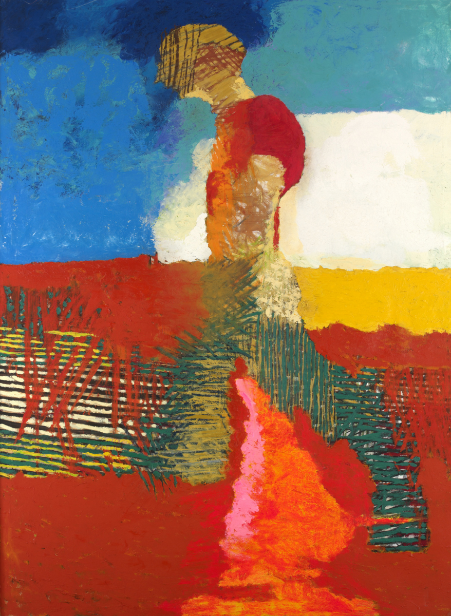 Walking man, oil on canvas, 200 x 145 cm (1988-89)